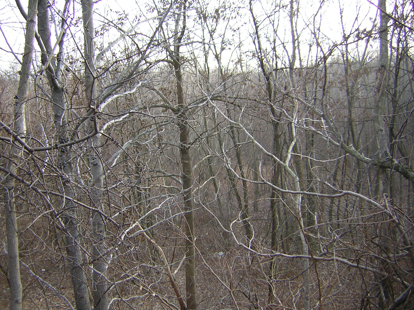 A birch forest grows in the southeastern part of the third (northeastern) chamber of the Ridgewood Reservoir. Partly sunny winter afternoon.